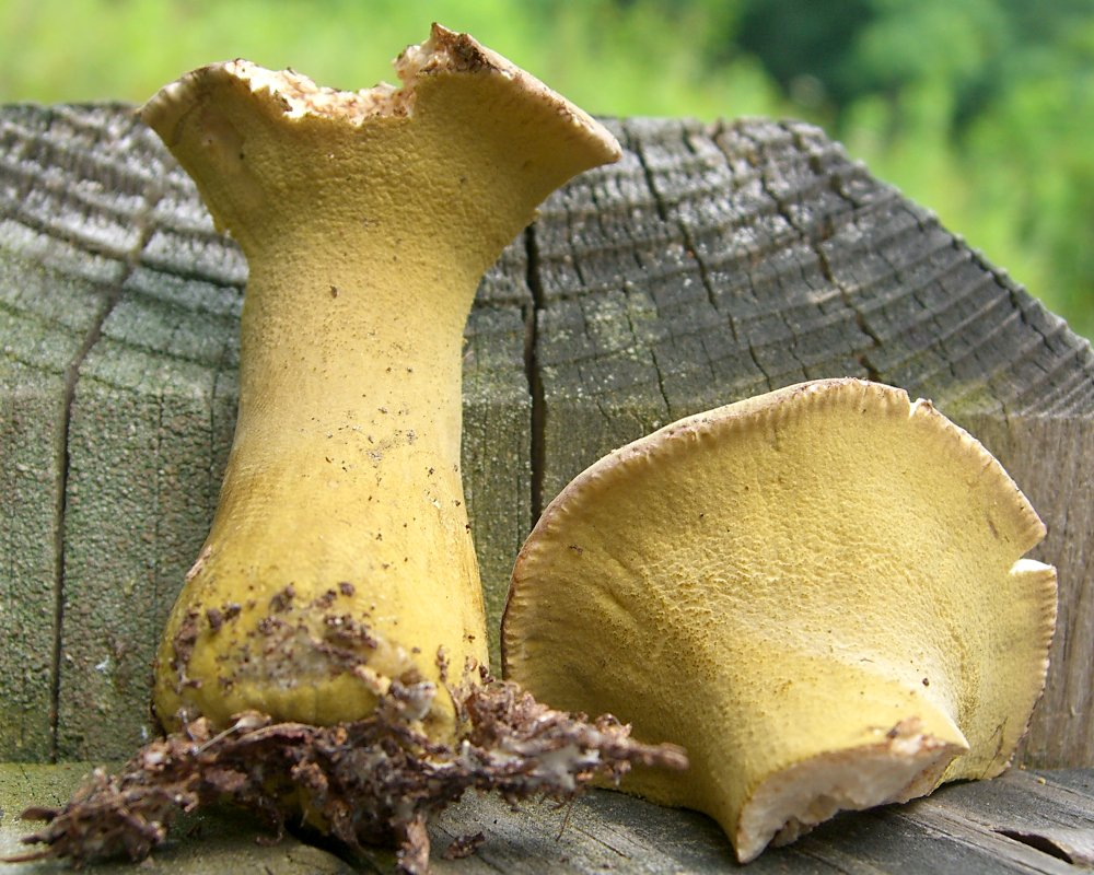 Scientific Name: Hypomyces luteovirens Common Name: Yellow-Green Russula Mold Certainty: sure of genus (notes) Location: Southern Appalachians; Smokies; CabinCove Cap and stalk of Russula variata? covered with it. Note how stalk still breaks cleanly.